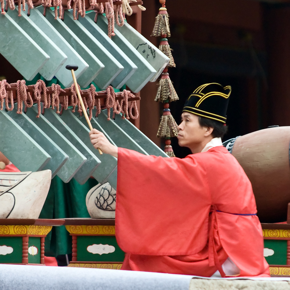 Musician playing a pyeongyeong for Jongmyo Jerye, ancestral rites at Jongmyo shrine, Seoul.